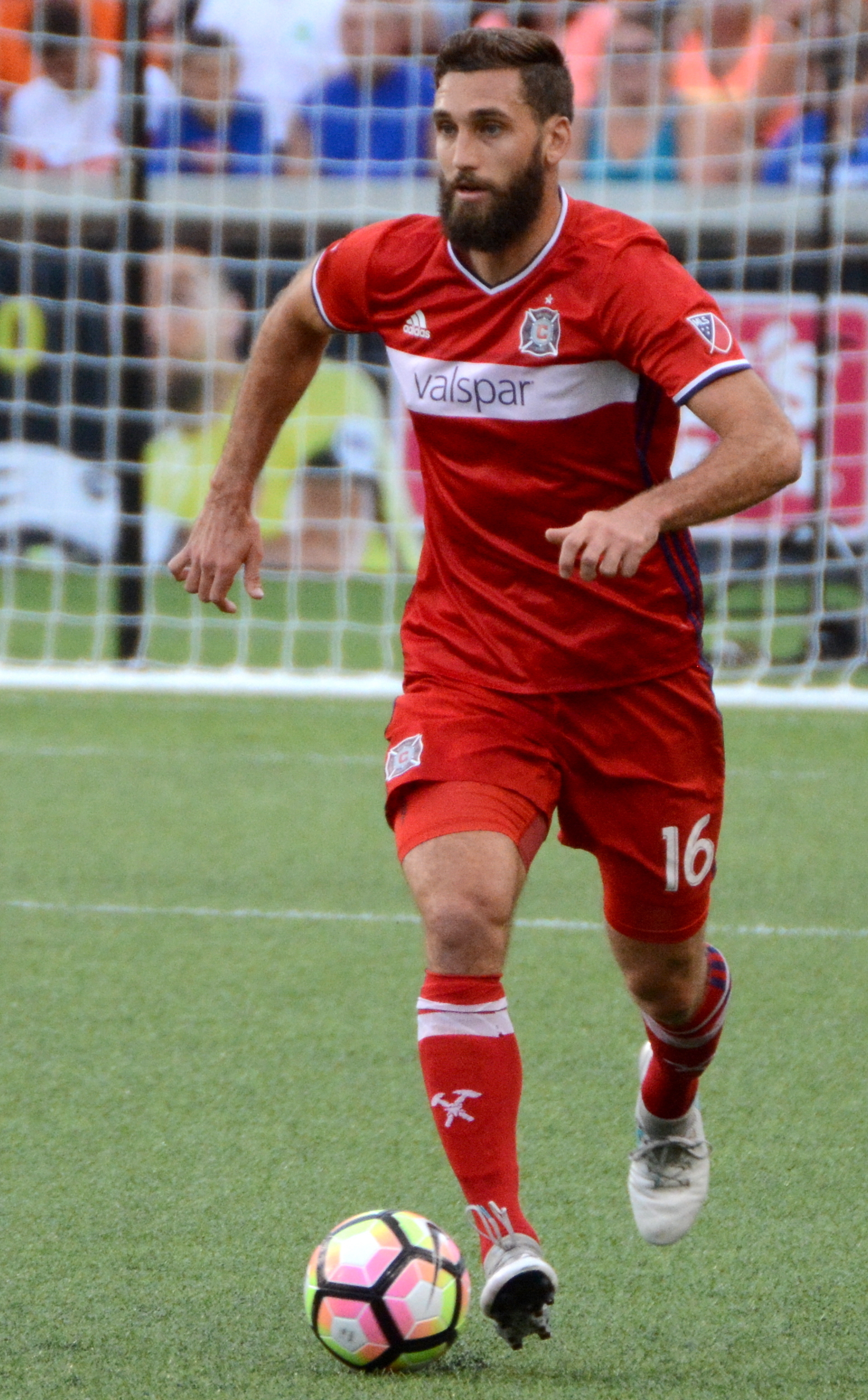 American soccer player Jonathan Campbell, a defender for Chicago Fire SC, running with the ball at a U.S. Open Cup Round of 16 match between FC Cincinnati and Chicago Fire at Nippert Stadium in Cincinnati, Ohio on June 28, 2017.